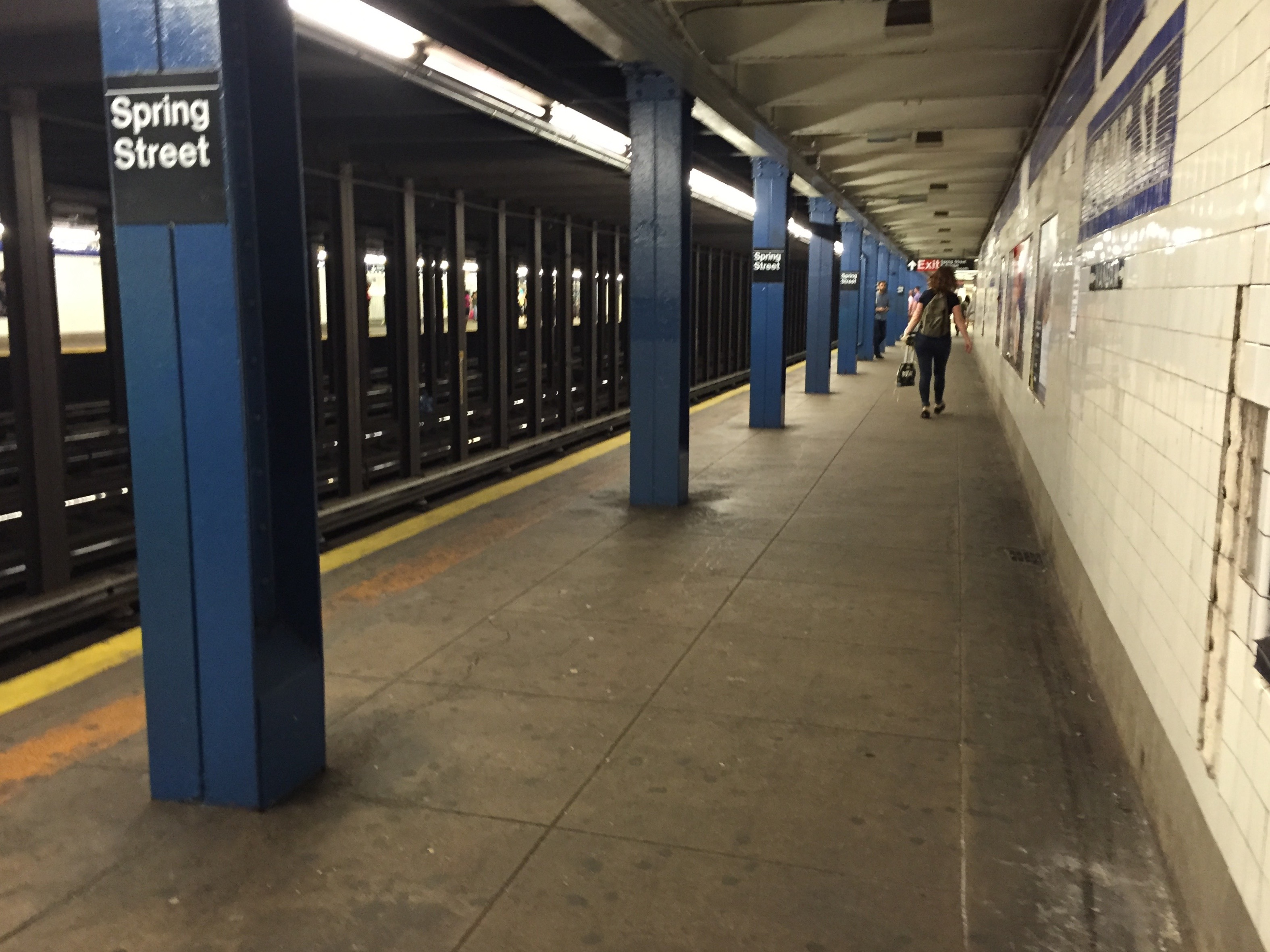 Downtown C/E platform at the Spring Street station.